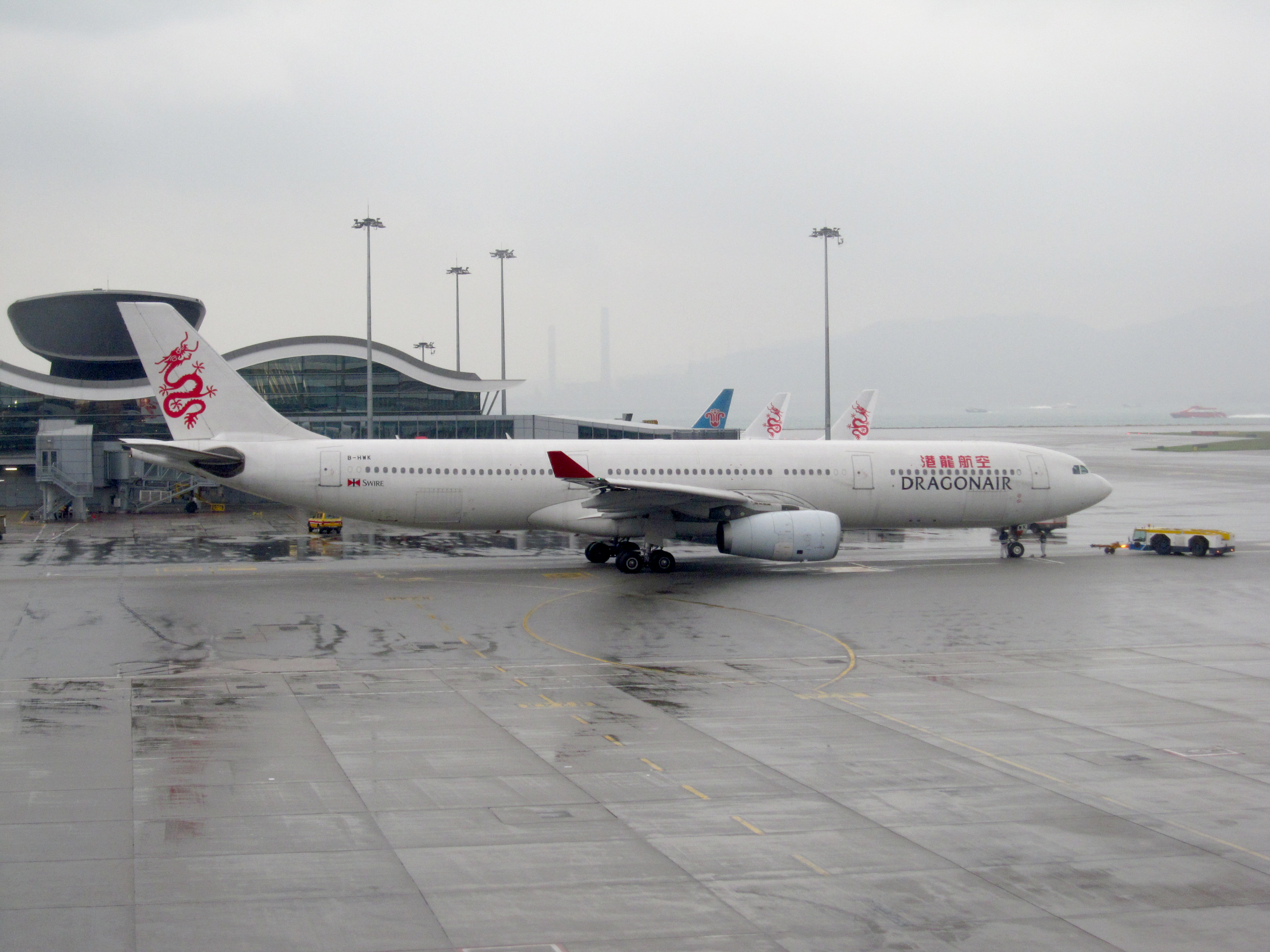 Dragonair Airbus A330-300 at Hong Kong International Airport (HKG) in March 2010.